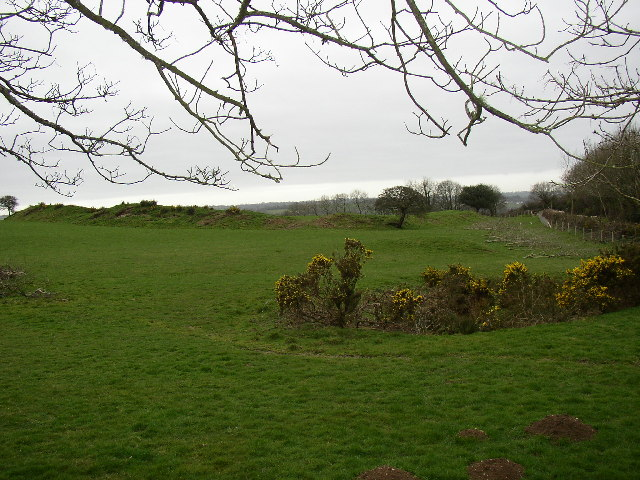 Iron-Age earthworks, Llanddewi Velfrey. This is Caerau Gaer on the map, and is taken from the bridleway that climbs up from the church